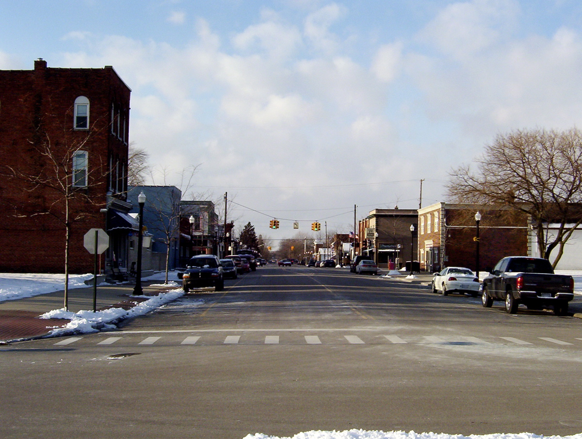 Photo taken from Burke Park on Anchor Bay, looking up Washington Street at historic downtown New Baltimore.